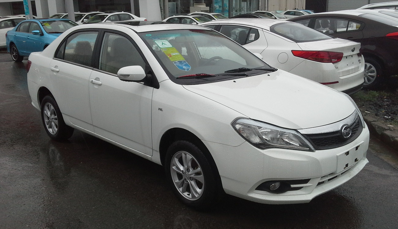 BYD F3 facelift photographed in Shanghai, China.